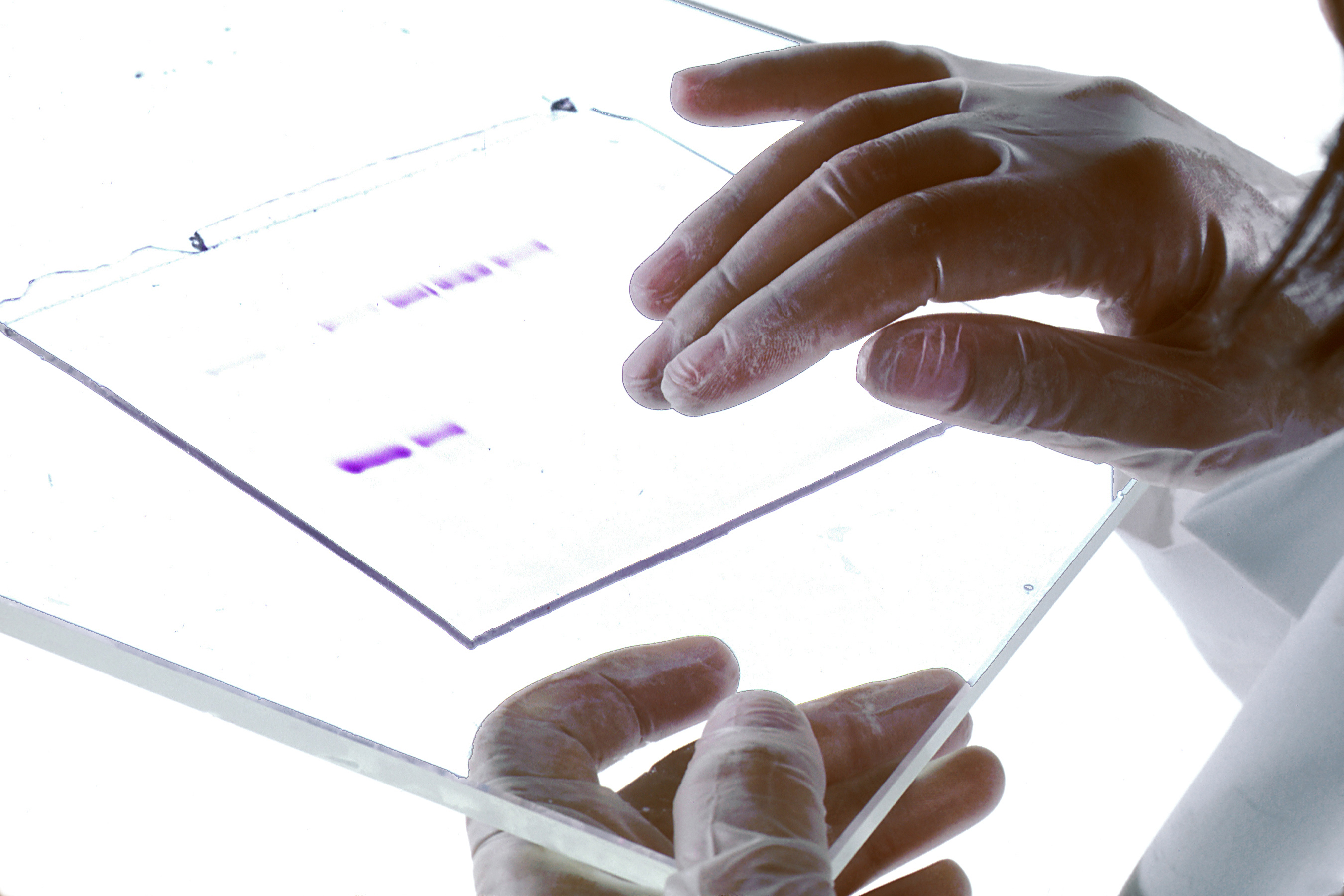 Title DNA Gel Description DNA gel being held on a clear glass tray by a gloved technician. DNA taken from the genes of human cells has been cleaved into small fragments by enzymes. The small DNA pieces are isolated by electropheresis onto an agarose gel plate. Scientist use this technique to identify and study genes. Topics/Categories Science and Technology -- Genetics Type Color, Photo Source Dr. S. Korsmeyer. Metabolism Branch, Section of Cellular Immunology